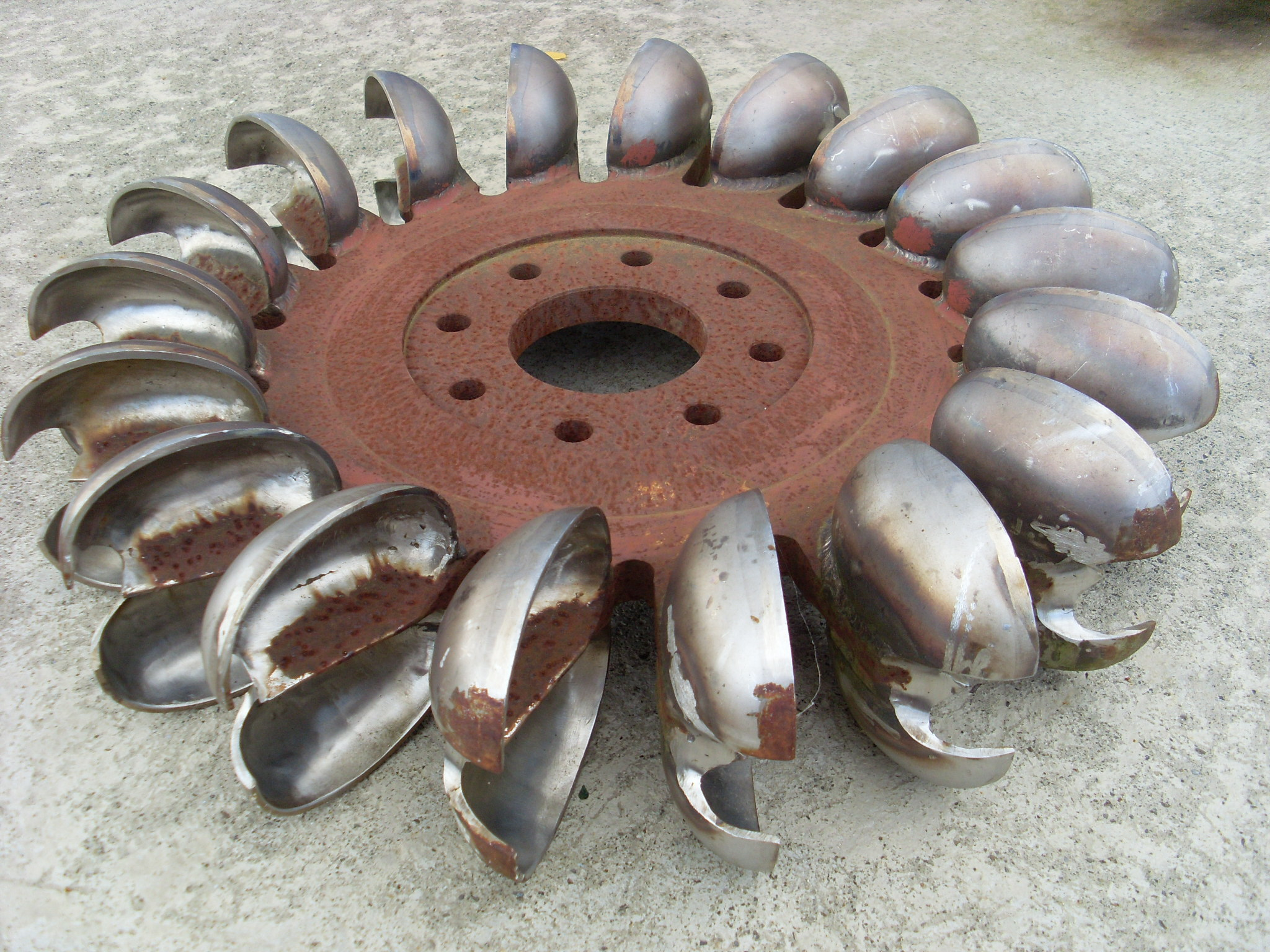 40kW pelton turbine - wheel